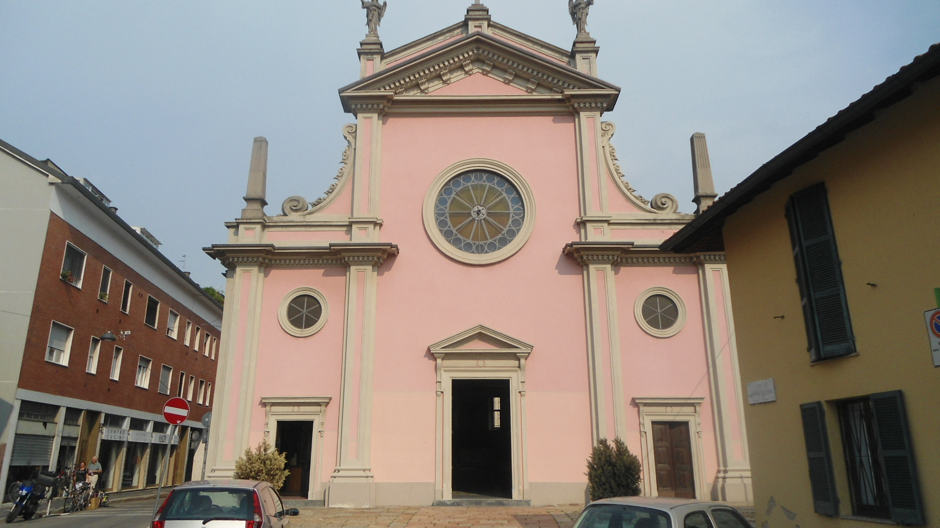 Front of the Santi Nazaro and Celso Church in Via Aldini